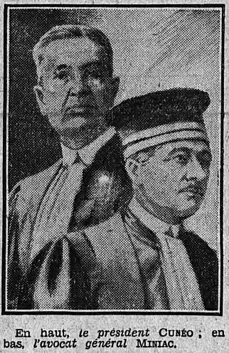 Edmond Miniac ( 1884-1947), lawyer, in newspaper Le Matin ( 22 october 1932).